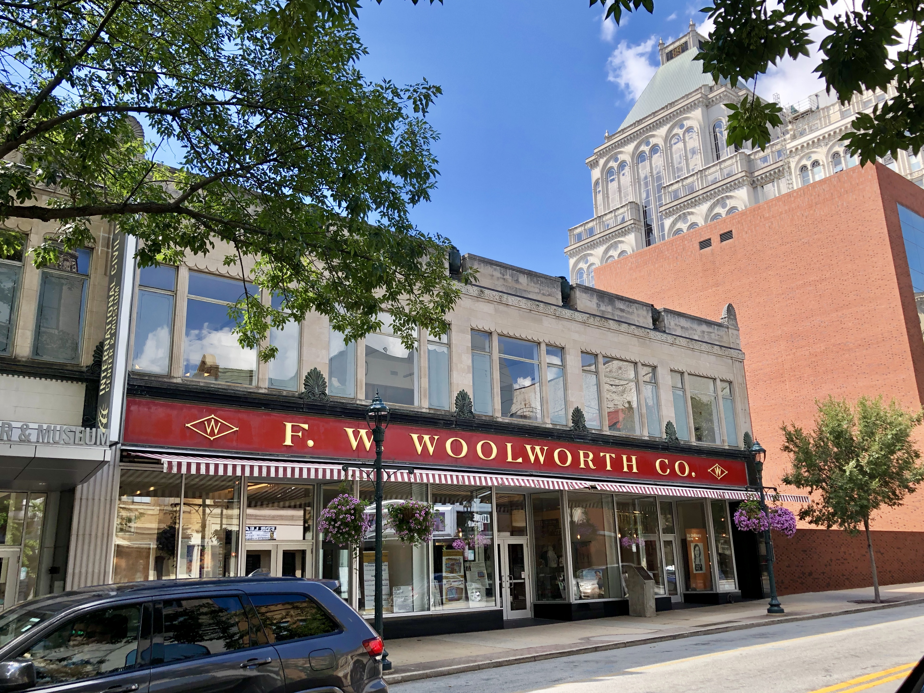 This is the former Woolworth's Department Store, located on Elm Street in the downtown business district of Greensboro, North Carolina. Now home to the International Civil Rights Center and Museum, the building is a contributing structure in the Downtown Greensboro Historic District, listed on the National Register of Historic Places in 1982.